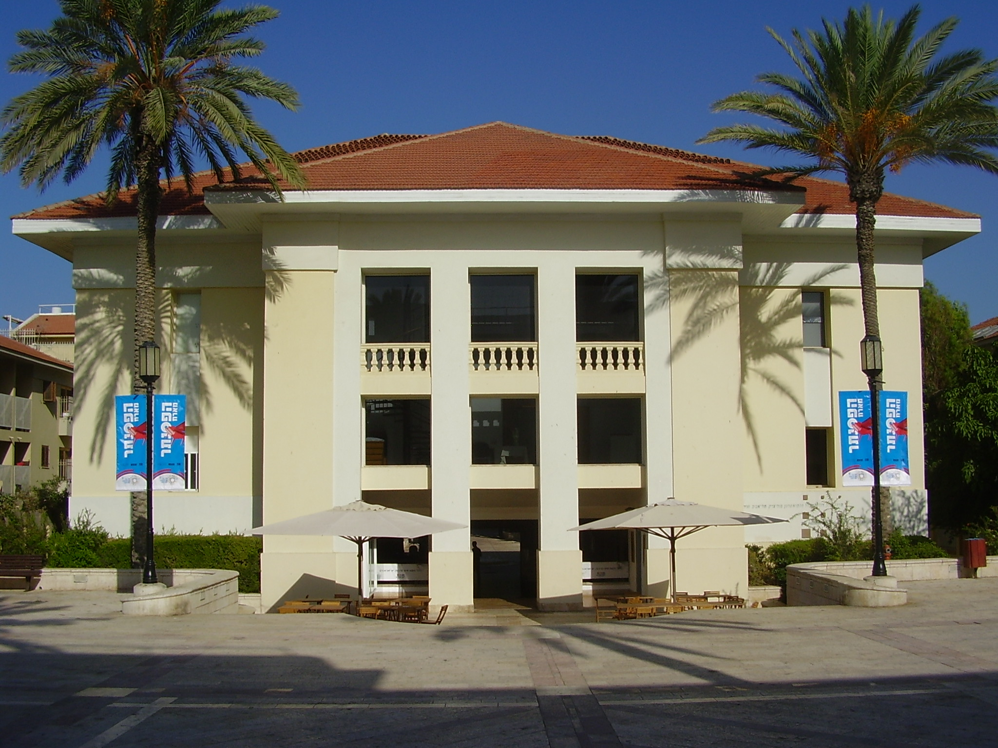 suzanne dalal center in tel aviv